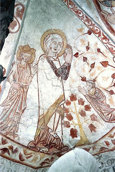 Frescoes in Nørre Alslev kirke